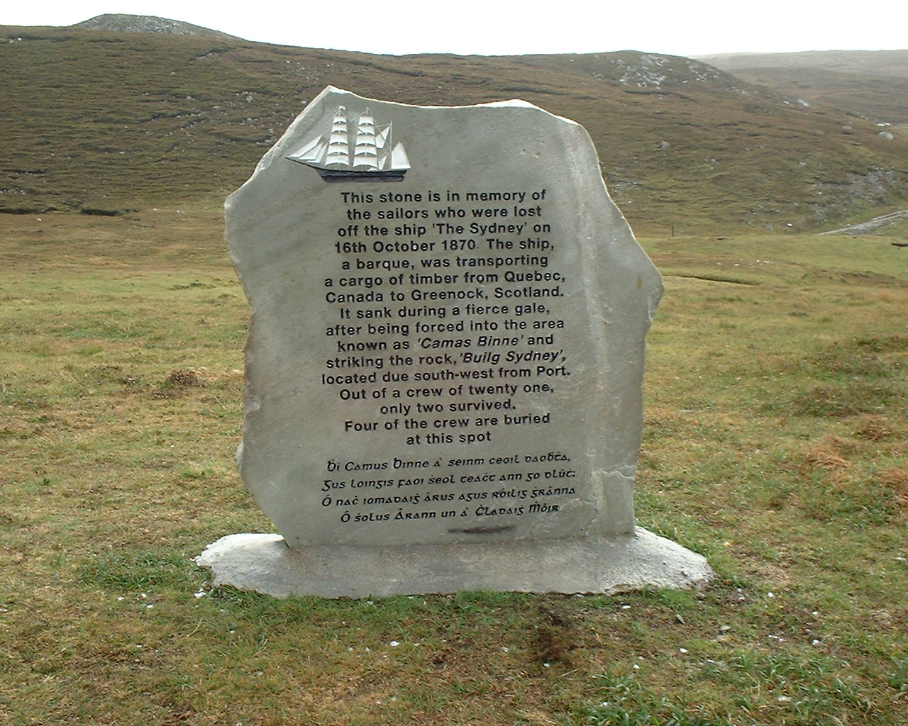 Memorial, GraveStone